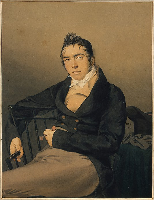 The father of Herman Melville.